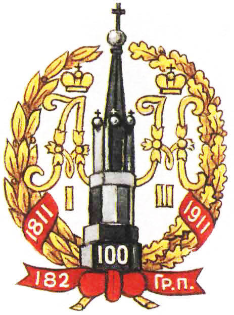 Badge of Grohovsky 182-th Regiment